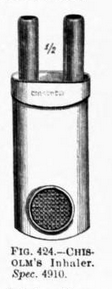 Illustration from The Medical and Surgical History of the War of the Rebellion (USG Printing Office, 1870-88) - Chisolm inhaler (Confederate) for chloroform - part III vol 2 - part III vol 2 pag 889